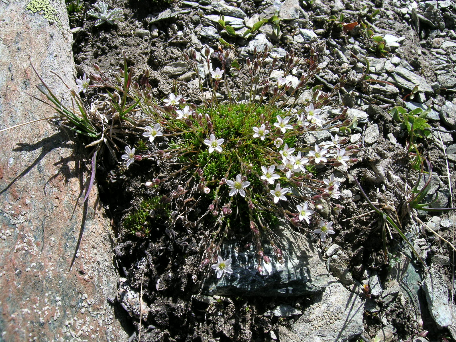 Minuartia recurva Zermatt, Riffelberg (Kanton Wallis, Switzerland), 2500 m Author: Roland Teuscher – own photograph Date: 2.08.06